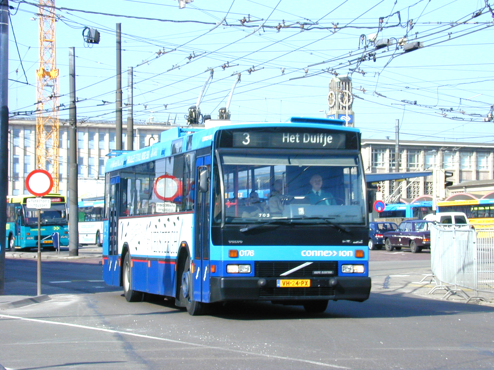 Arnhem trolleybus 0176, a 1990 Volvo B10M with a Den Oudsten B88 body and Kiepe electrical equipment.